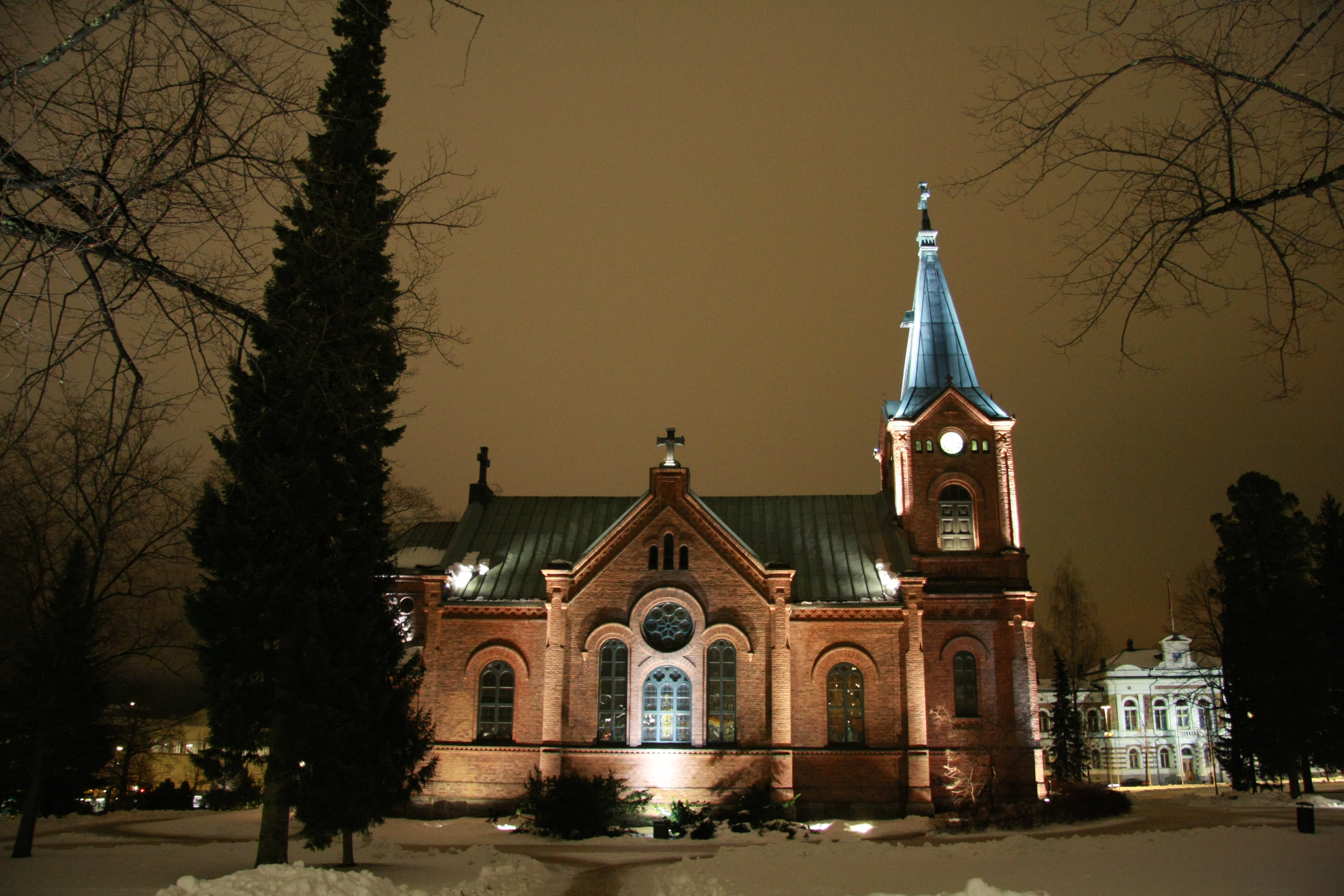 Jyväskylä's communal church 2008.